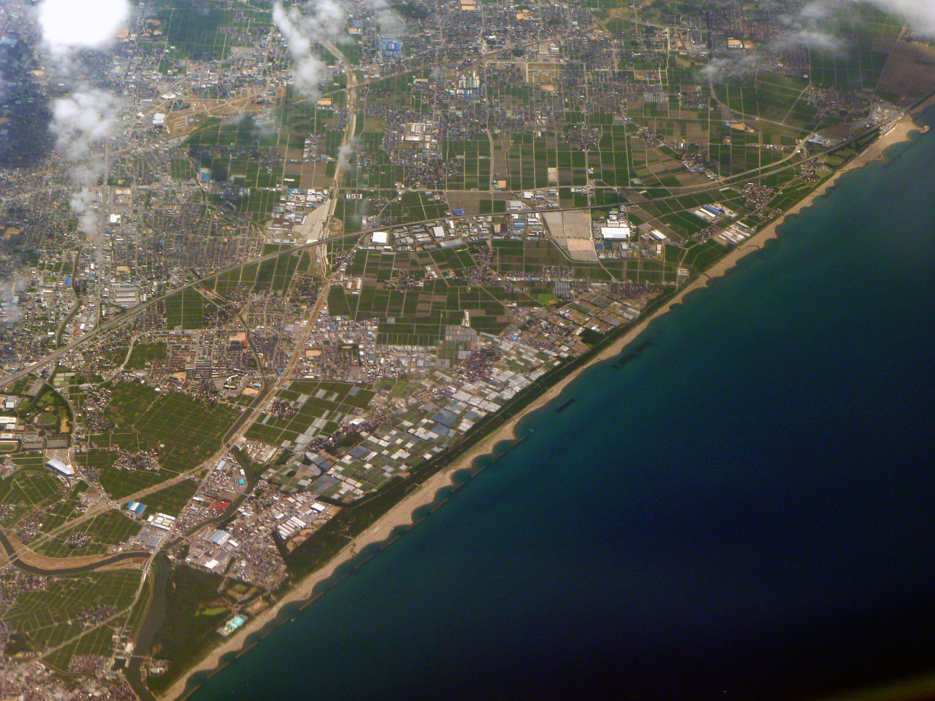 View of the border of Kanazawa and Hakusan in Ishikawa Prefecture, Japan.